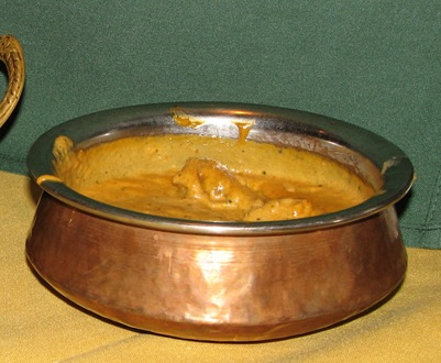 A handi used to serve Indian food